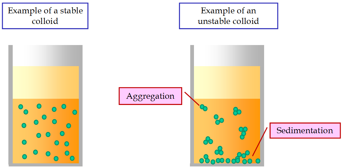 Examples of a stable and of an unstable colloidal suspension. The continuous phase is a liquid and the dispersed phase consists of solid particles.